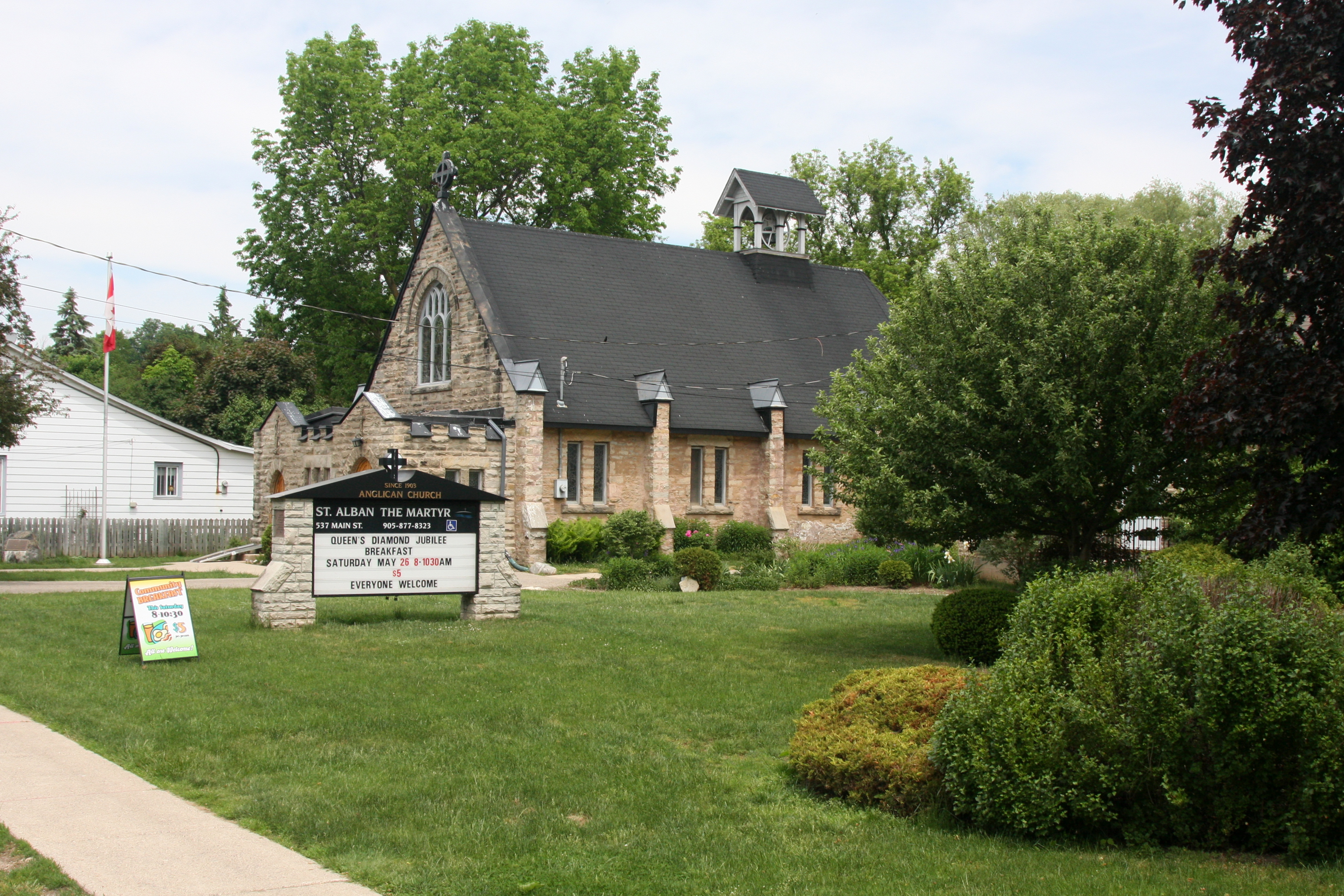 St. Alban the Martyr Anglican Church, 539 Main Street in Glen Williams, Ontario, Canada. The St. Albans Church (539 Main Street) and rectory site (537 Main Street) is made up of lots 1 and 47 of the original Charles Kennedy survey as well as additional land along the Credit River. Lot 1 was first sold in 1838 to George McElvery from Benajah Williams. It passed through several owners and in 1856 was split, with the southerly half eventually being left to the church by Rose Ann McMaster, widow of William McMaster. The first services were held in her house, which had been converted for this purpose. The conerstone of St. Alban the Martyr was laid in 1902, and the church opened in June of following year. The architect was F. S. Baker, the son of a woollen miller in Kilbride, and a friend of Joesph Beaumont. F.S. Baker would later become the 2nd President of the Royal Architectural Institute of Canada from 1910-1912. The adjacent site, Lot 47, was first purchased by Thomas Alexander in 1859 from Charles Williams. Alexander, a Blacksmith, operated a shop on the site for a number of years. The lot was eventually sold to the church and the existing Rectory was built.